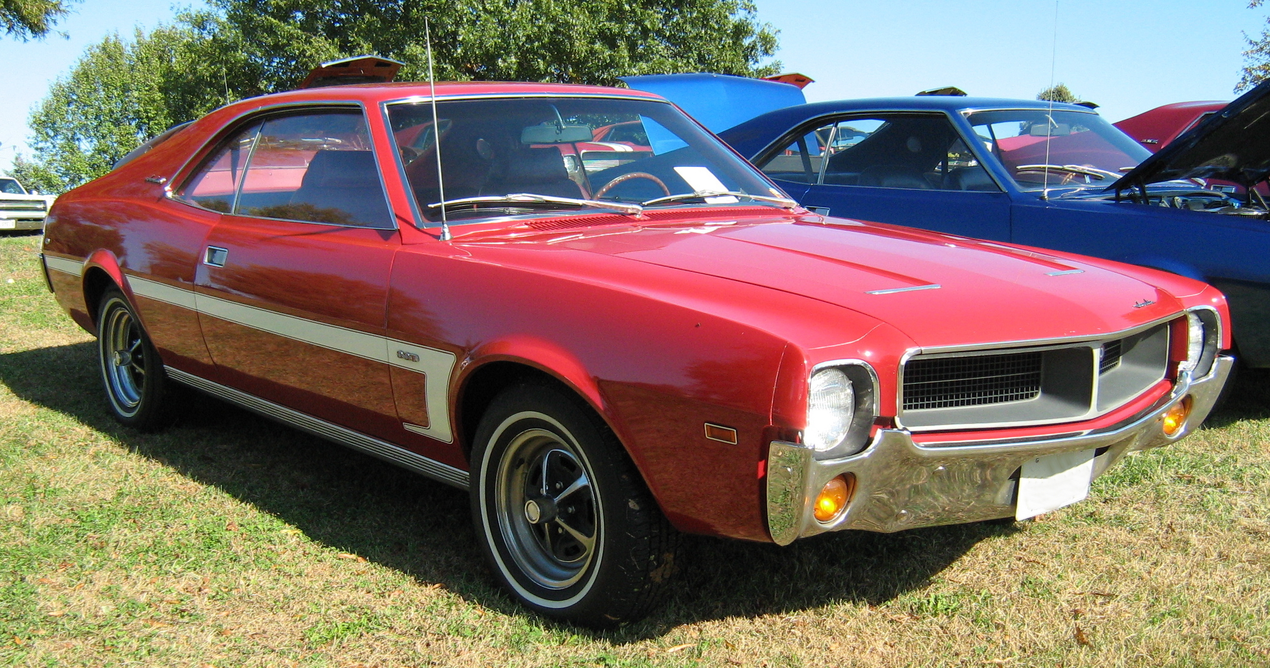 1969 Javelin SST model by American Motors (AMC) - a "pony car". This two-door hardtop is finished in Matador Red (paint code P39) with the optional "C" stripe in white. This car also has the "Magnum" styled steel wheels.